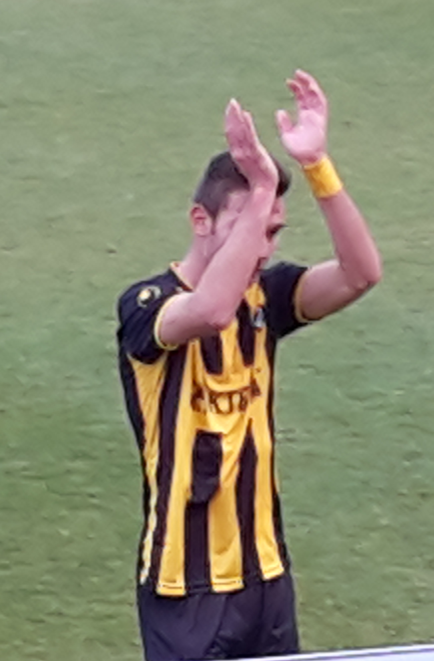 Photo of Tsvetelin Chunchukov from Botev Plovdiv - Haskovo (7 Dec 2014)